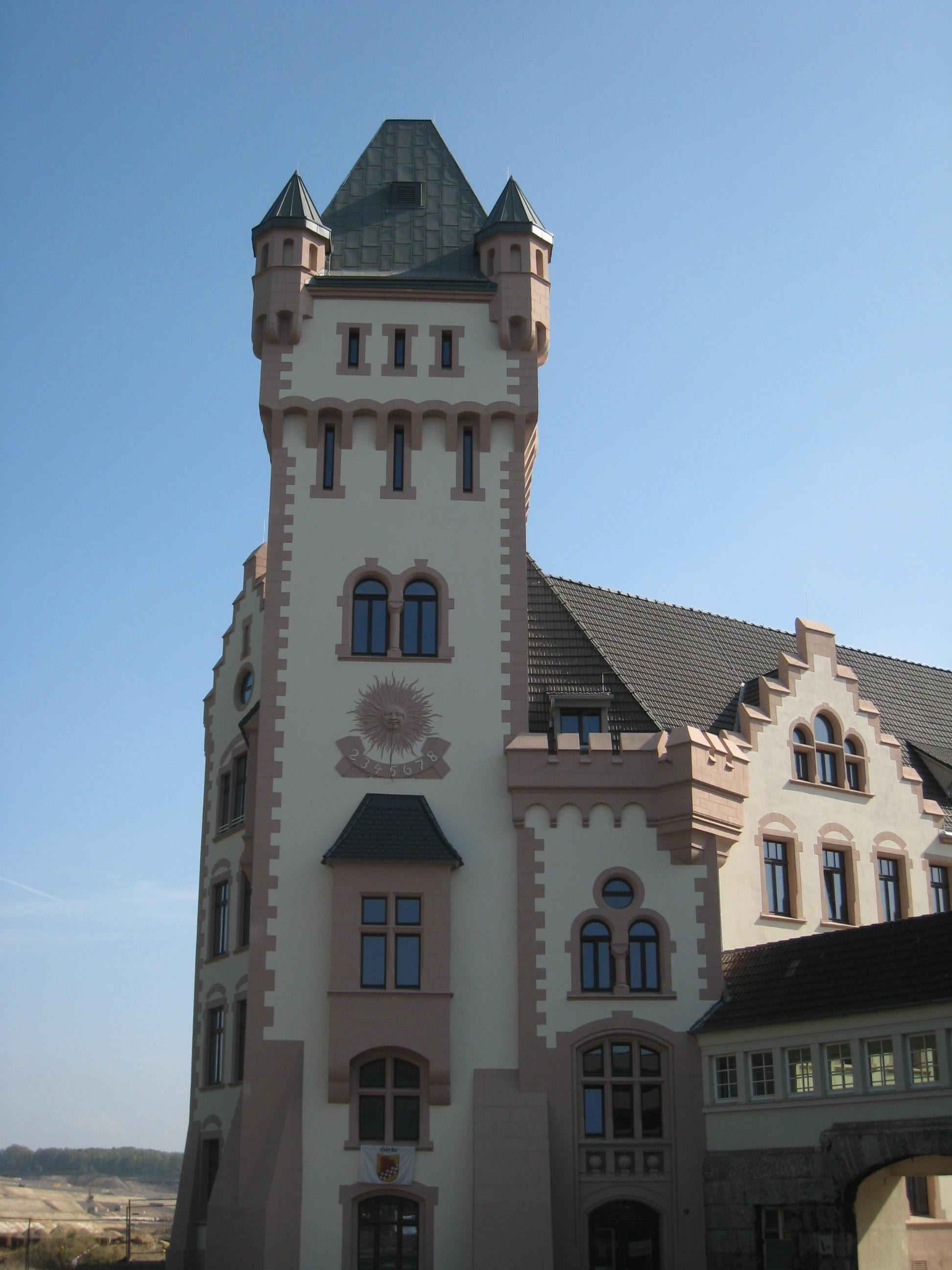 Hörder Burg